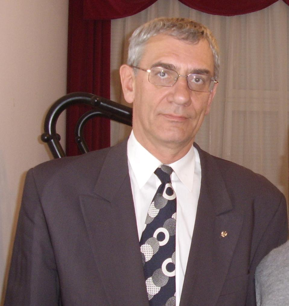 Actor Wiktor Zborowski.